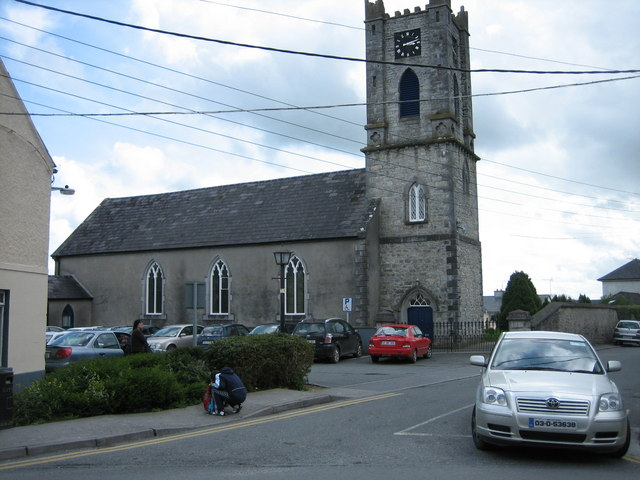 St Coman's, Roscommon. This Church of Ireland parish church was built in 1775.